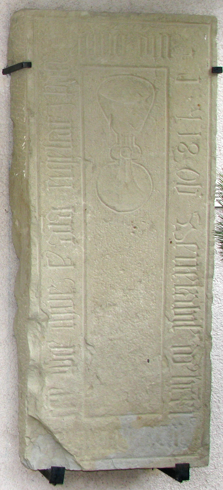 Zürich-Fluntern : St. Martin monastery, Gravestone of Caplan Heinrich Mahler (1518).